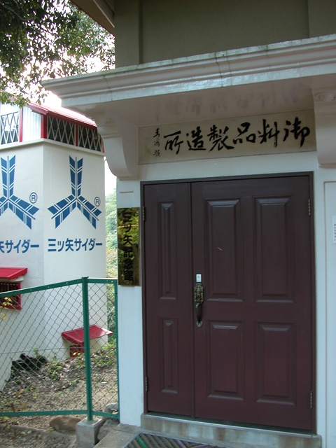 Mitsya Museumu (Kawanishi-City) 27 Oct. 2002